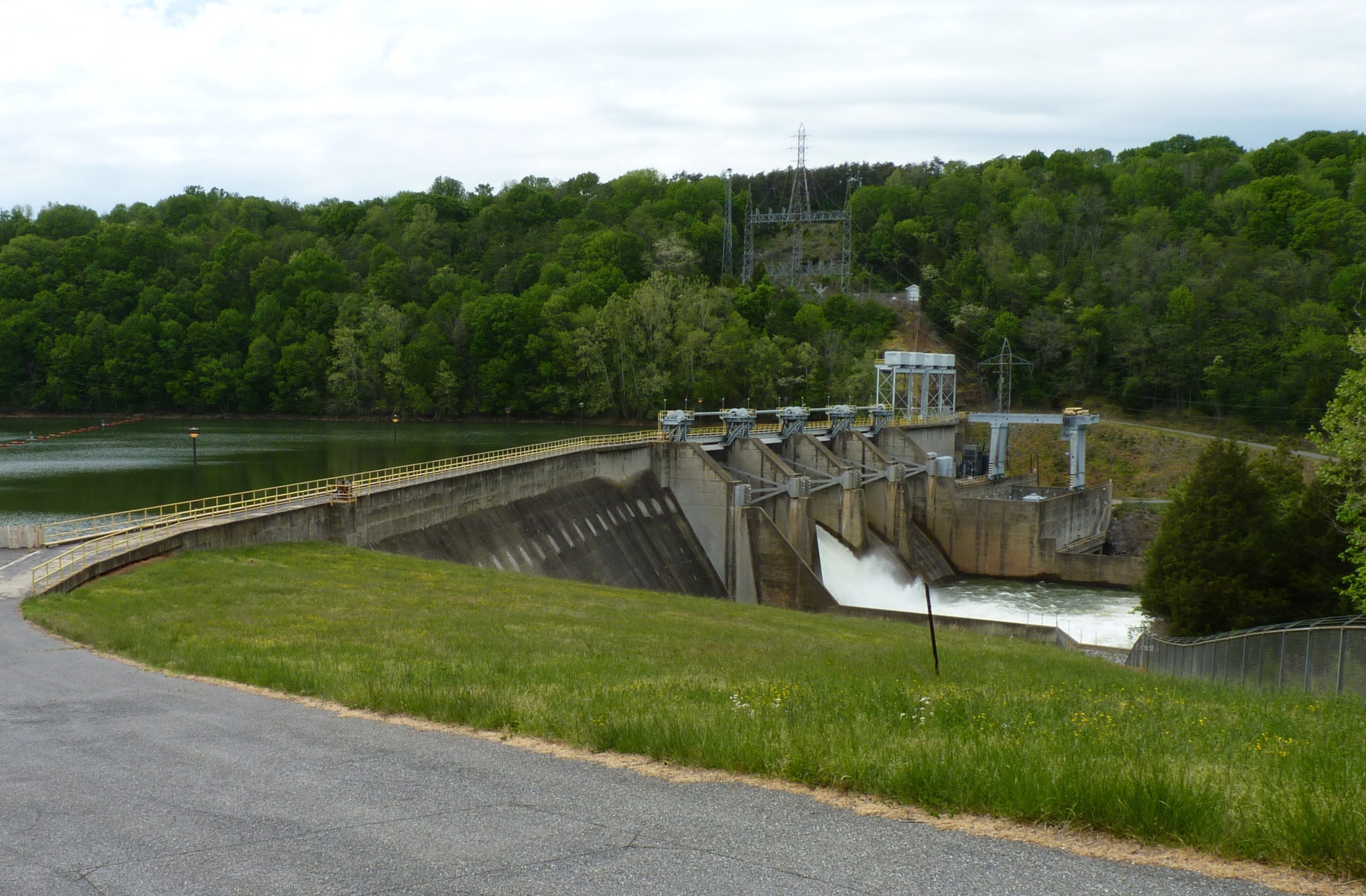 Leesville Lake (Dam) is a reservoir owned by American Electric Power. It is a smaller reservoir than Smith Mountain Lake and is located lower than Smith Mountain Lake. It is used to store water from Smith Mountain Lake and to pump water back to Smith Mountain Lake when added hydroelectric power is needed there.